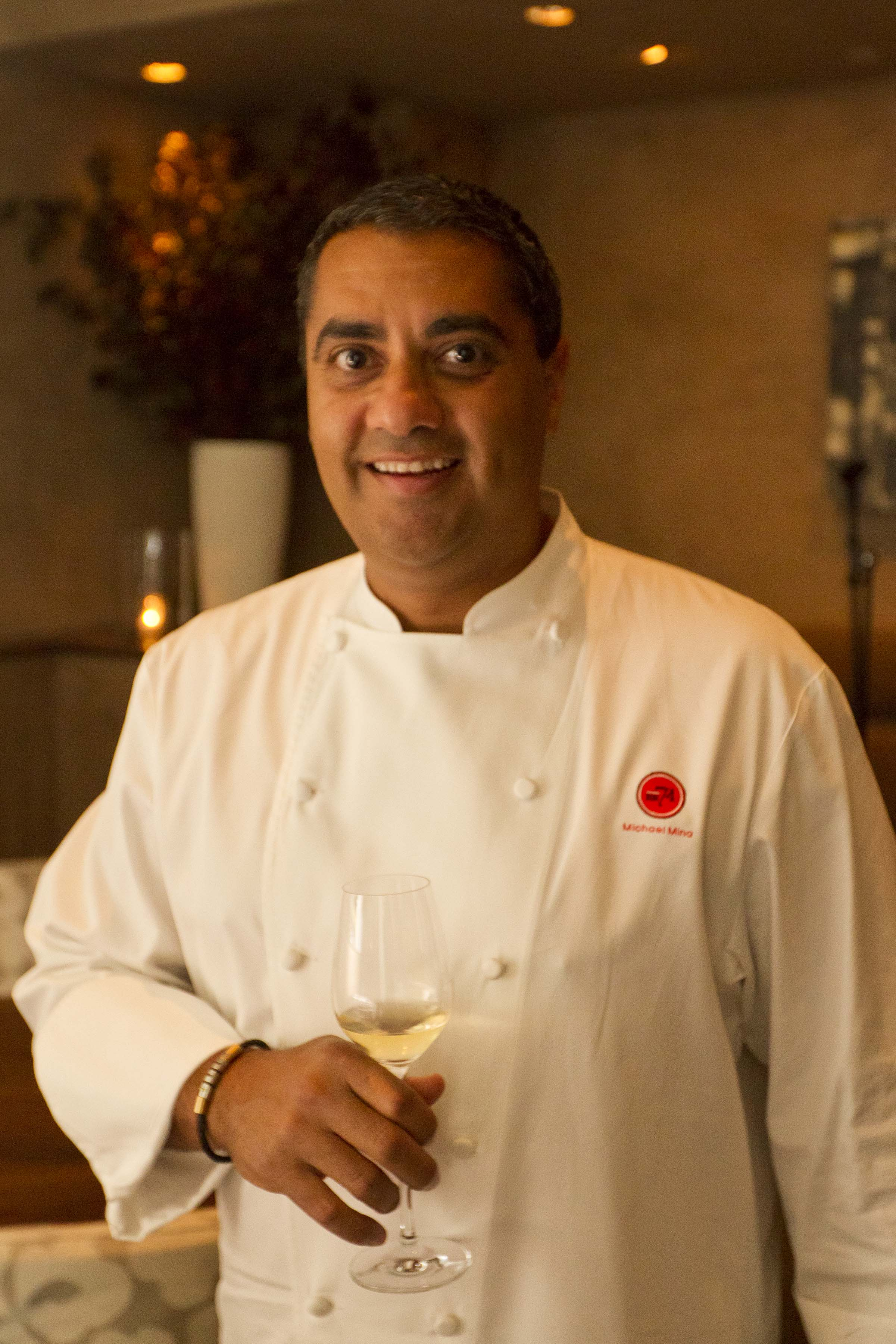 Michael Mina at the Moët Hennessy Financial Times Club Dinner, San Francisco. (Per Flickr description: "Photo Credit: Drew Altizer".)